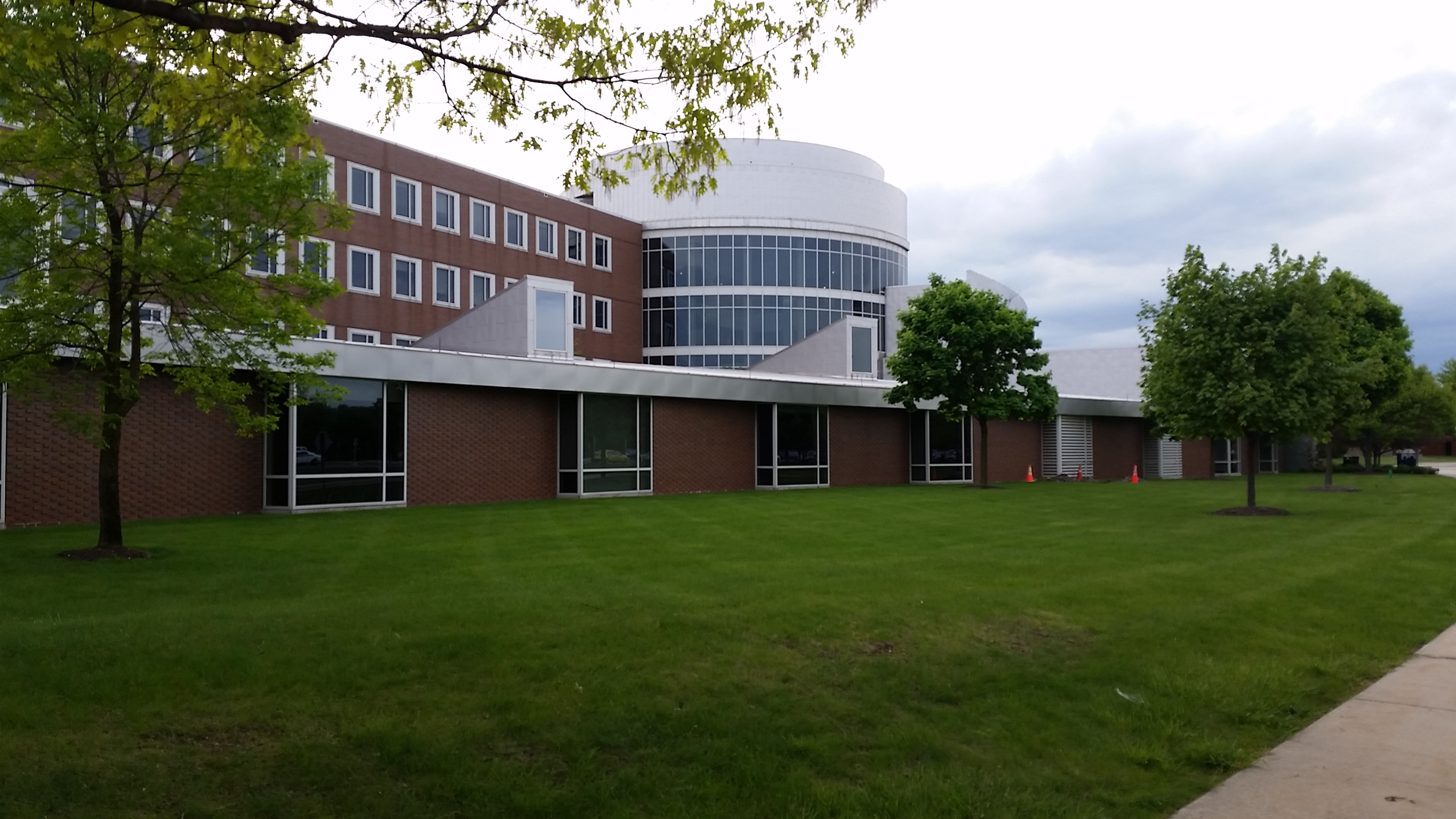 The CASL building, University of Michigan-Dearborn